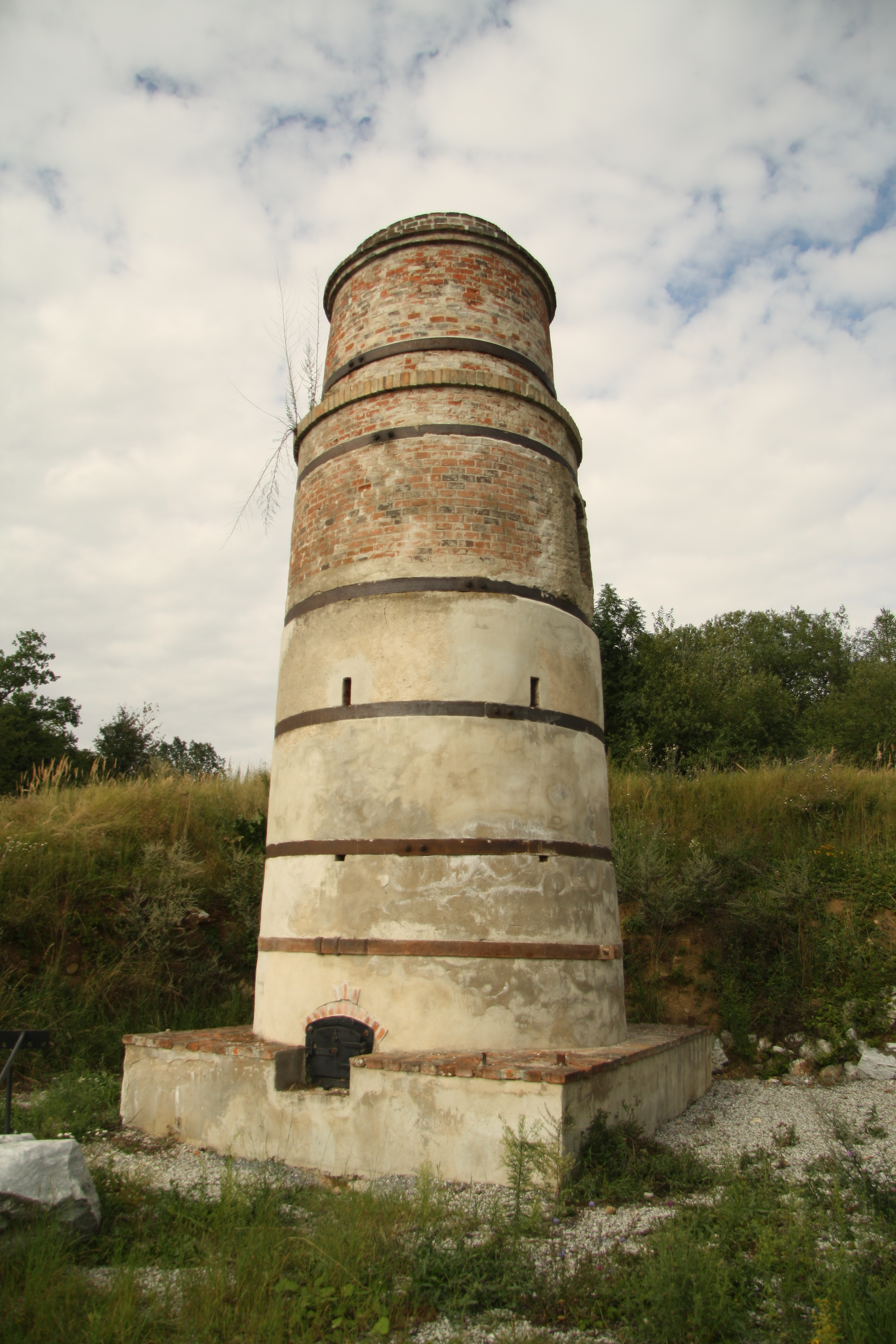 Side view of lime burning tower near Zblovice, Znojmo District.